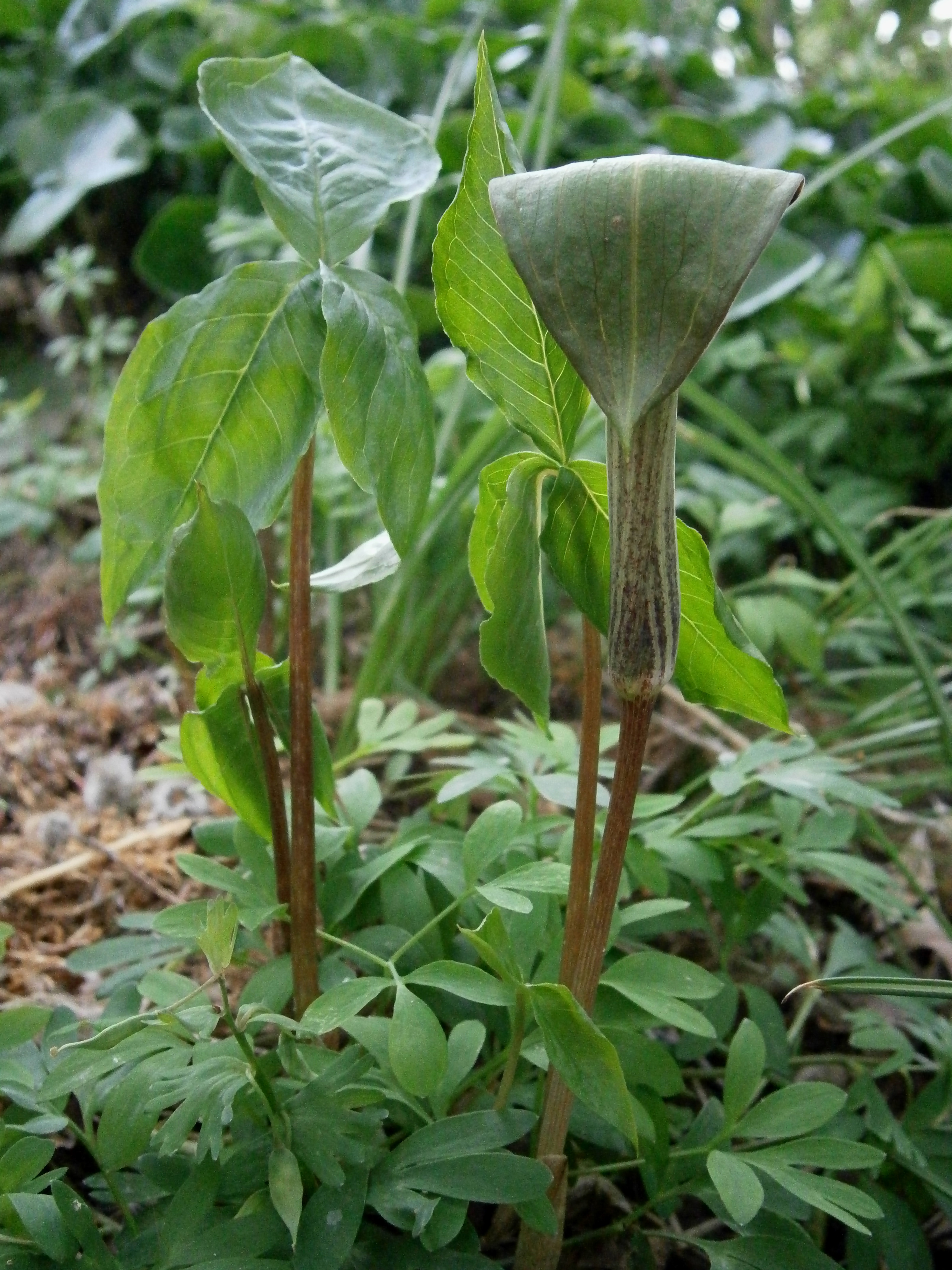 Arisaema triphyllum opening